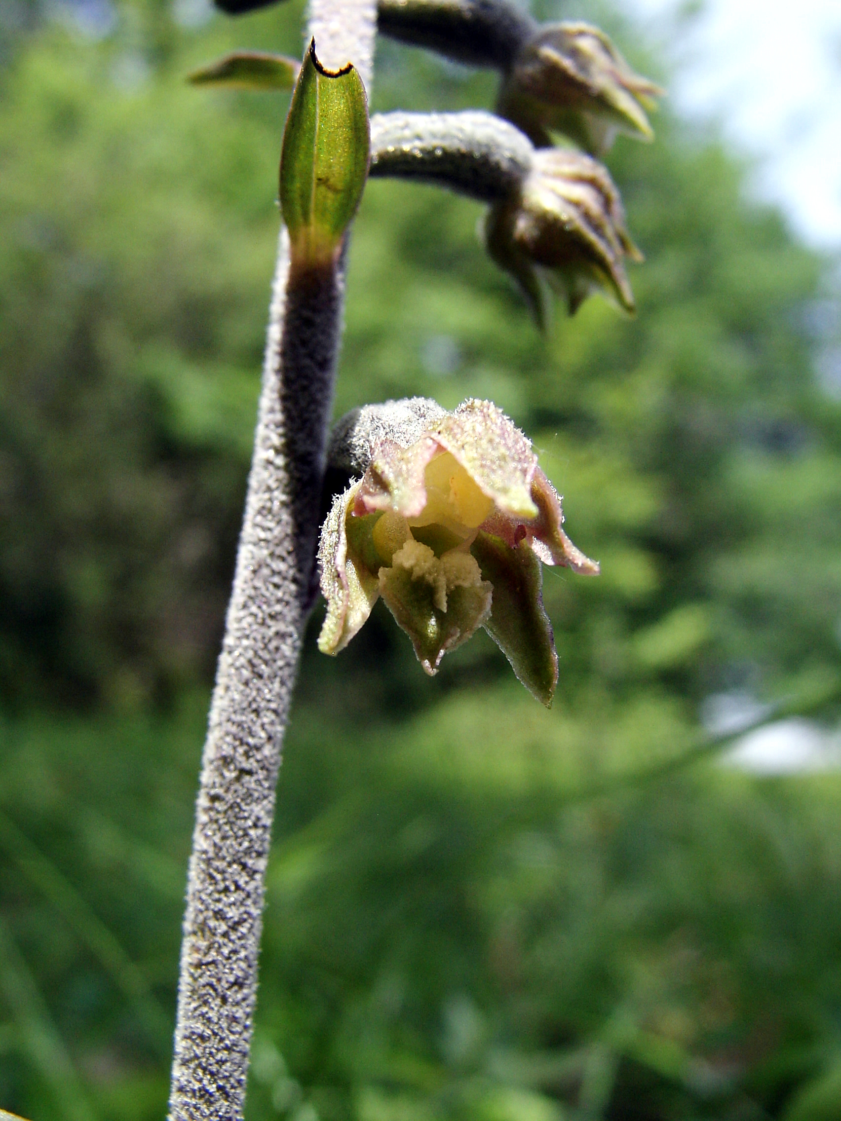 Epipactis microphylla